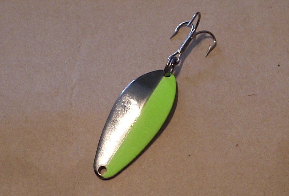 Little Cleo fishing lure